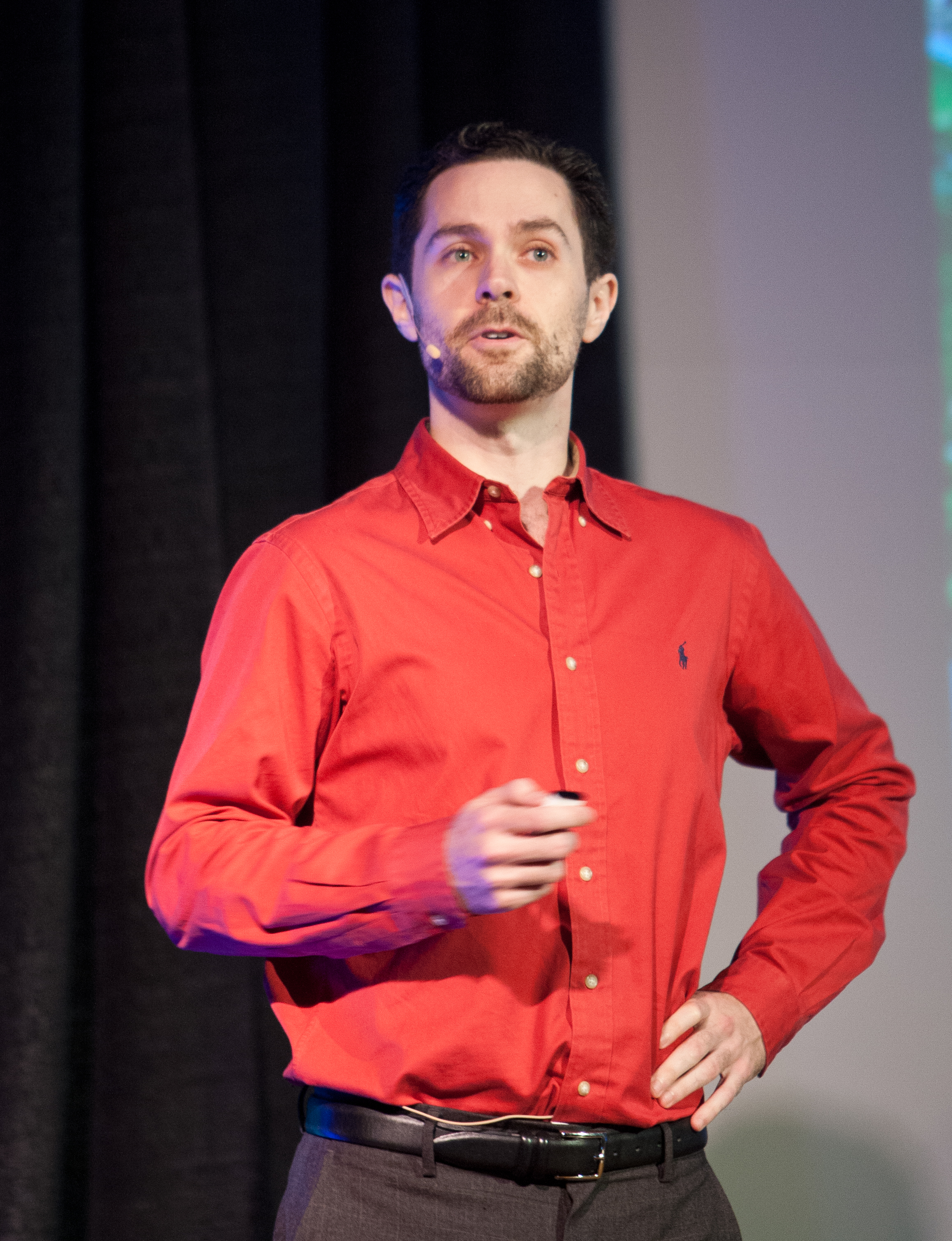 Max Marty presenting Blueseed at TEDx Monterey, "Sea Change", April 2012. The presentation was titled "Breathing New Life into Disruptive Innovation".